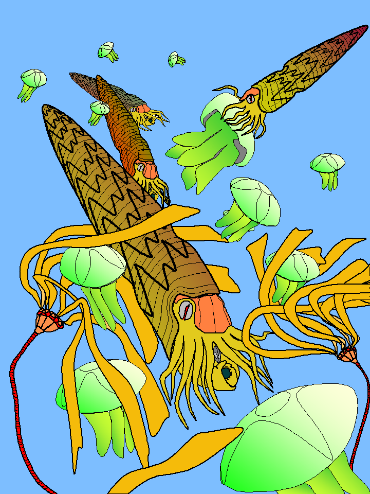 Ideal reconstruction of longicone orthoceratid nautiloids predating on jellyfishes.